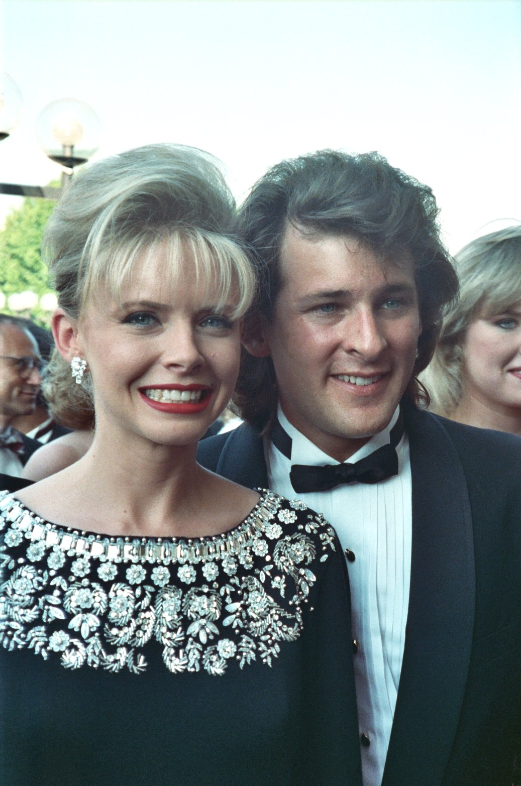 1990 Emmy Awards NOTE: Permission granted to copy, publish, broadcast or post any of my photos, but please credit "photo by Alan Light" if you can. Thanks. Scanned from the original 35MM film negative.